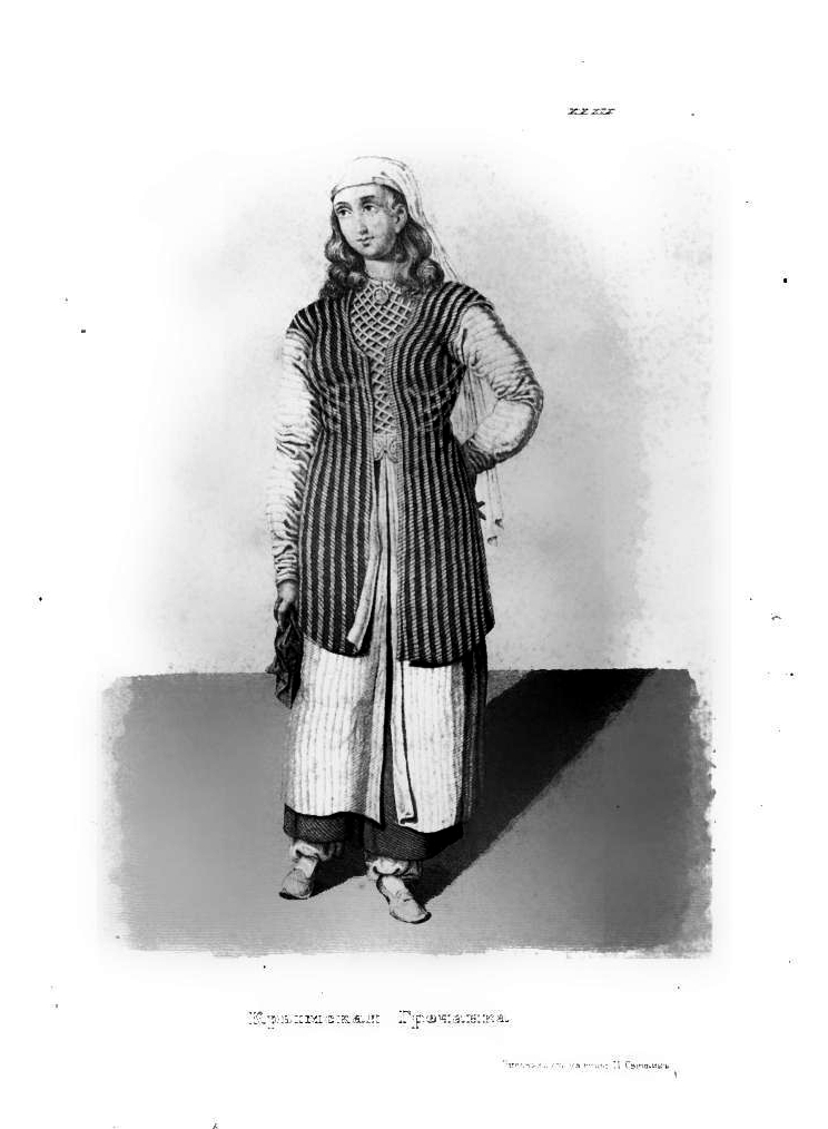 Krym